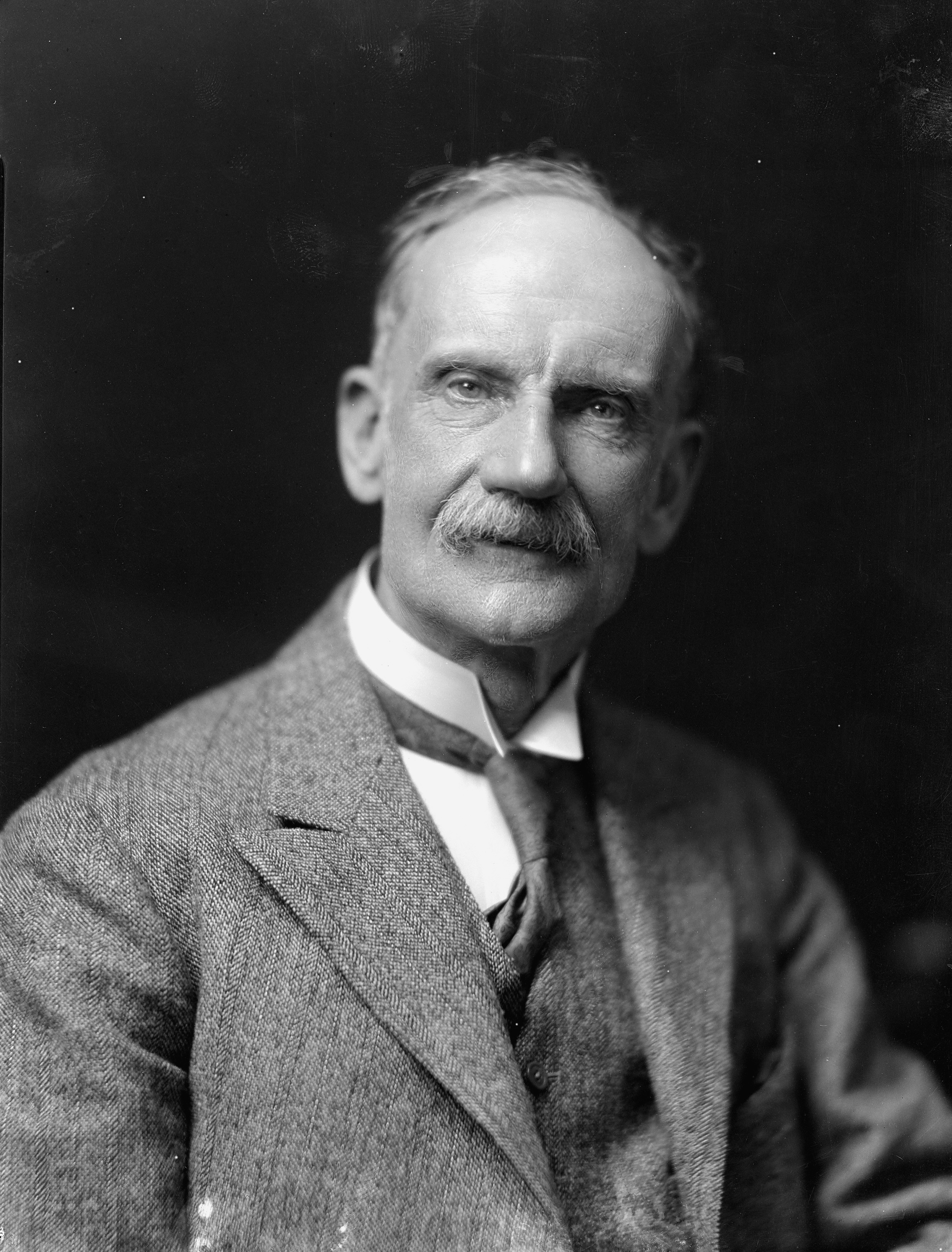 William Pember Reeves in 1925. Photograph taken by Stanley Polkinghorne Andrew.